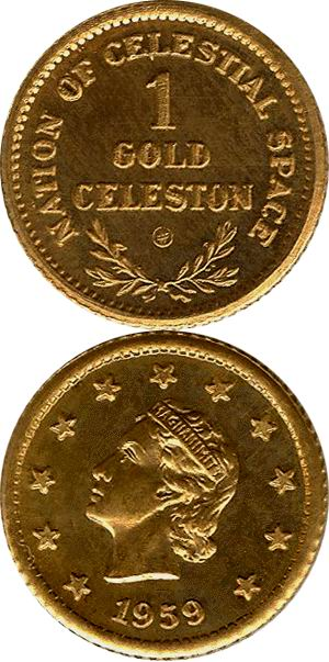 1 celeston golden coin of the Nation of Celestial Space